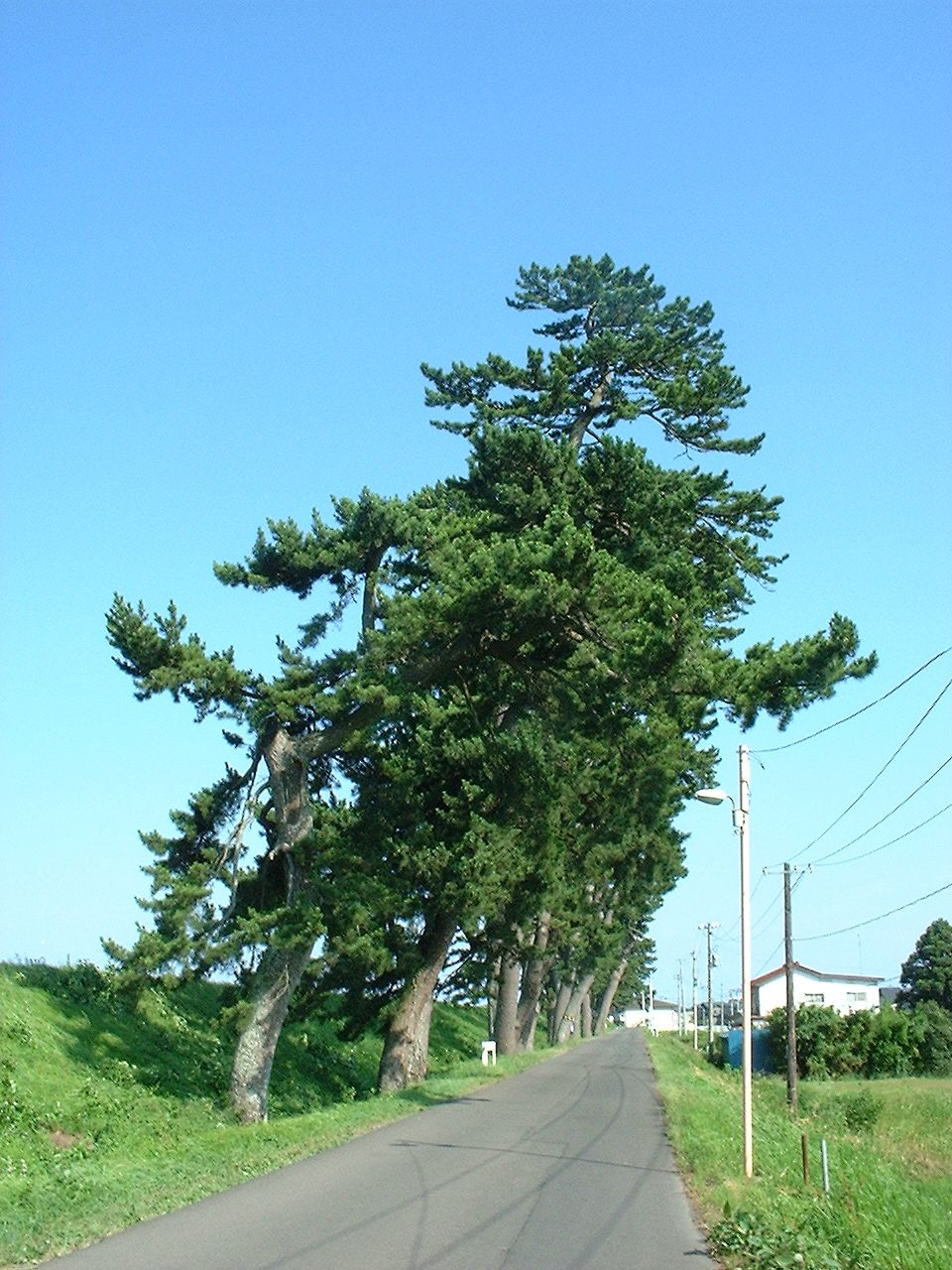 Historically valuable pine trees planted along the Natori river dike.